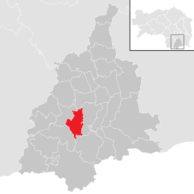 District Leibnitz